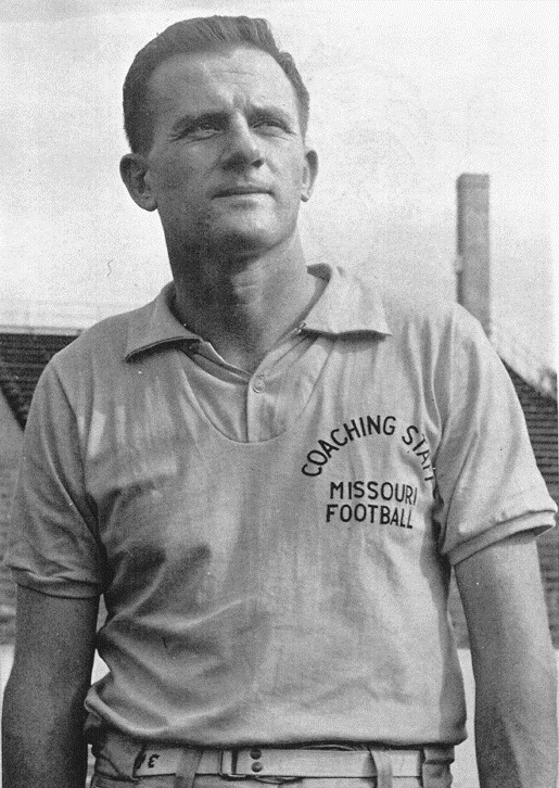 Photograph of Missouri football coach Frank Broyles